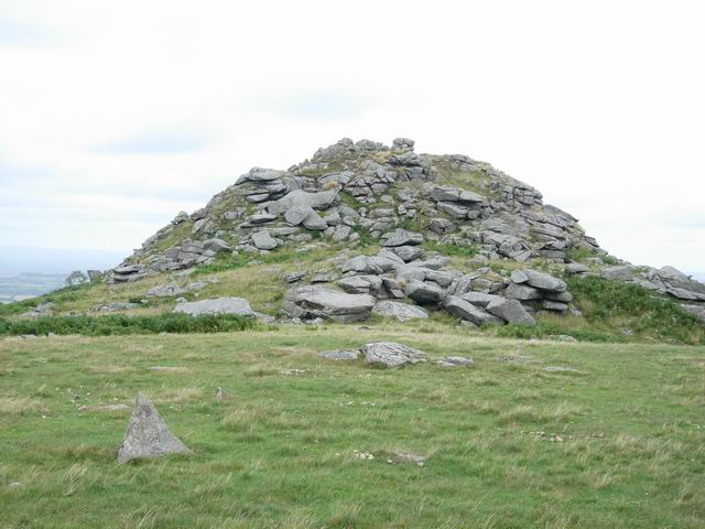 Sharp Tor. From the west.